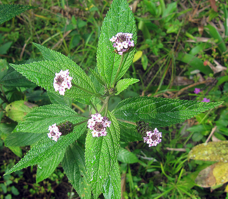 Found through much of the Neotropics and parts of Africa. Photo from the Sarapiqui Valley, Costa Rica. In context at